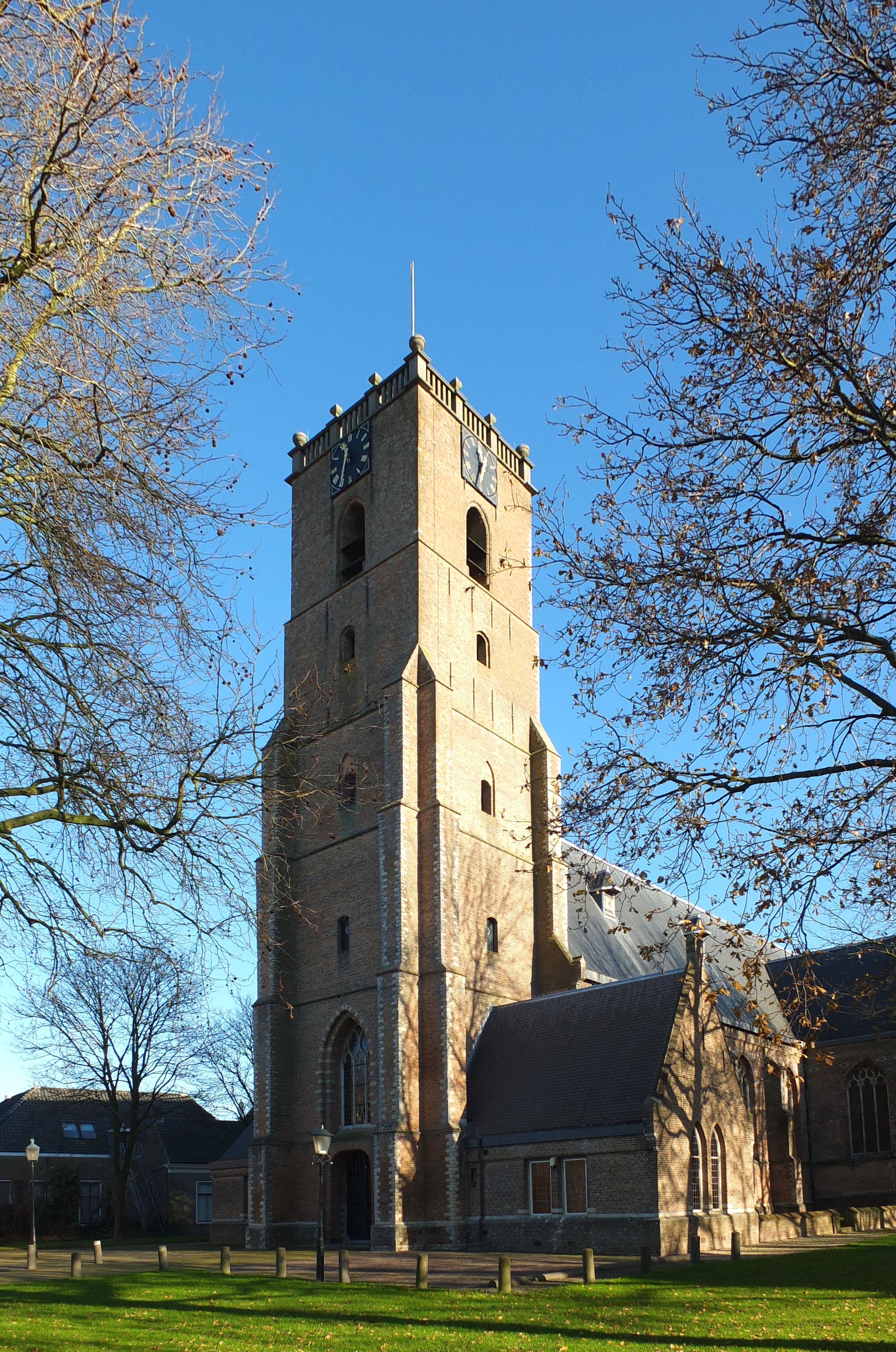 The Dutch Reformed Church at Middelharnis, a late-gothic church. The tower was built after the model of Antwerp's St Michael's Convent, because this convent had paid for the dikes surrounding Middelharnis. The spire was demolished in 1811. The church burnt down in 1904 and 1948, both times it was rebuilt to the old plans.